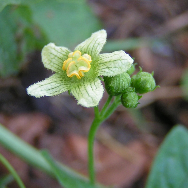 White bryony (Bryonia dioica). Photo by sannse, Wivenhoe trail (Colchester to Wivenhoe), 9 June 2004.